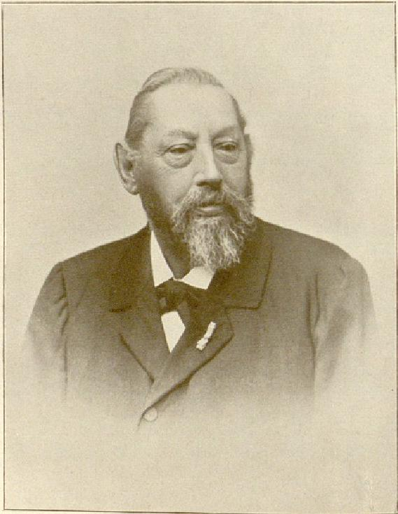 Portrait of the German mycologist Andreas Allescher